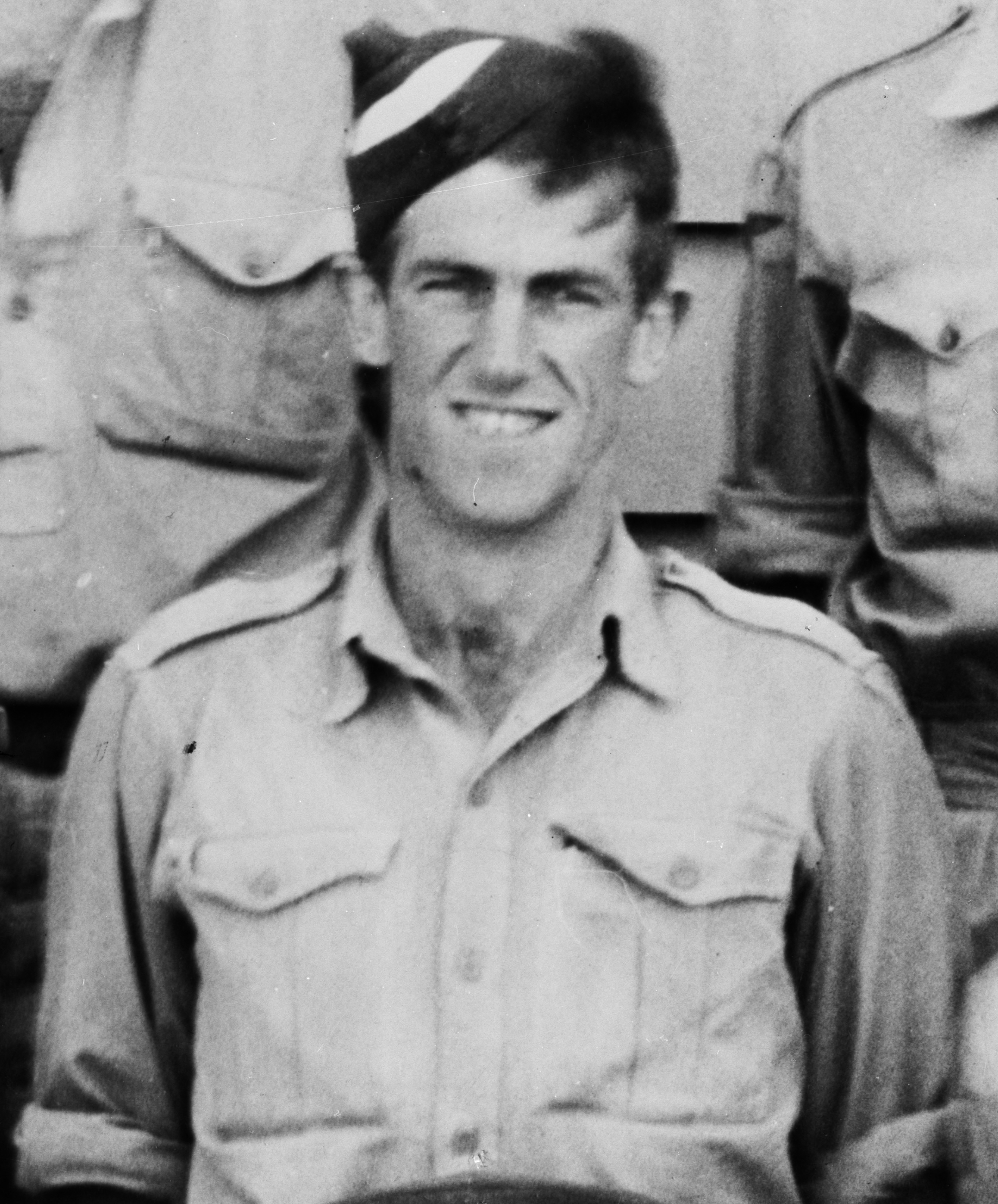 Edmund Hillary in Air Force uniform at Delta Camp near Blenheim, New Zealand, between 1939–45.